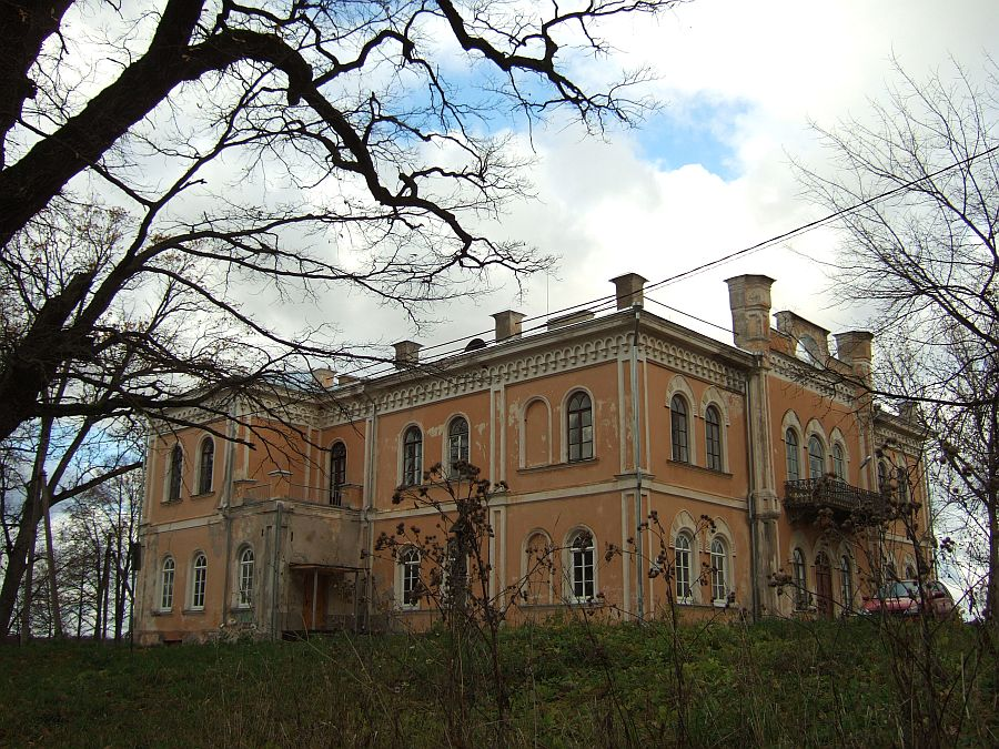 Manor house in Glitiškės